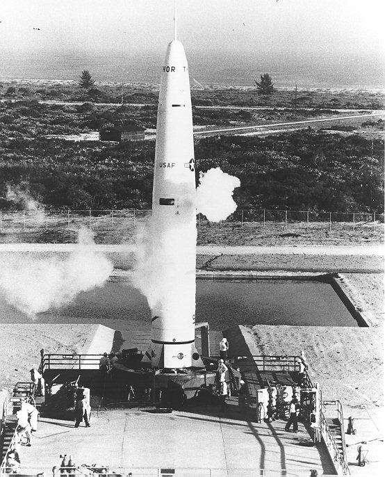 THOR NUMBER 101 ON LAUNCH STAND BEFORE LAUNCH